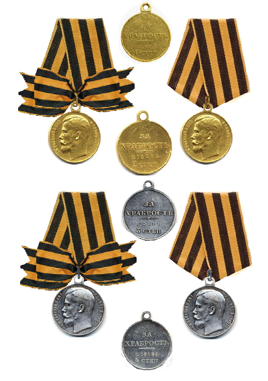 Medal of Saint-George